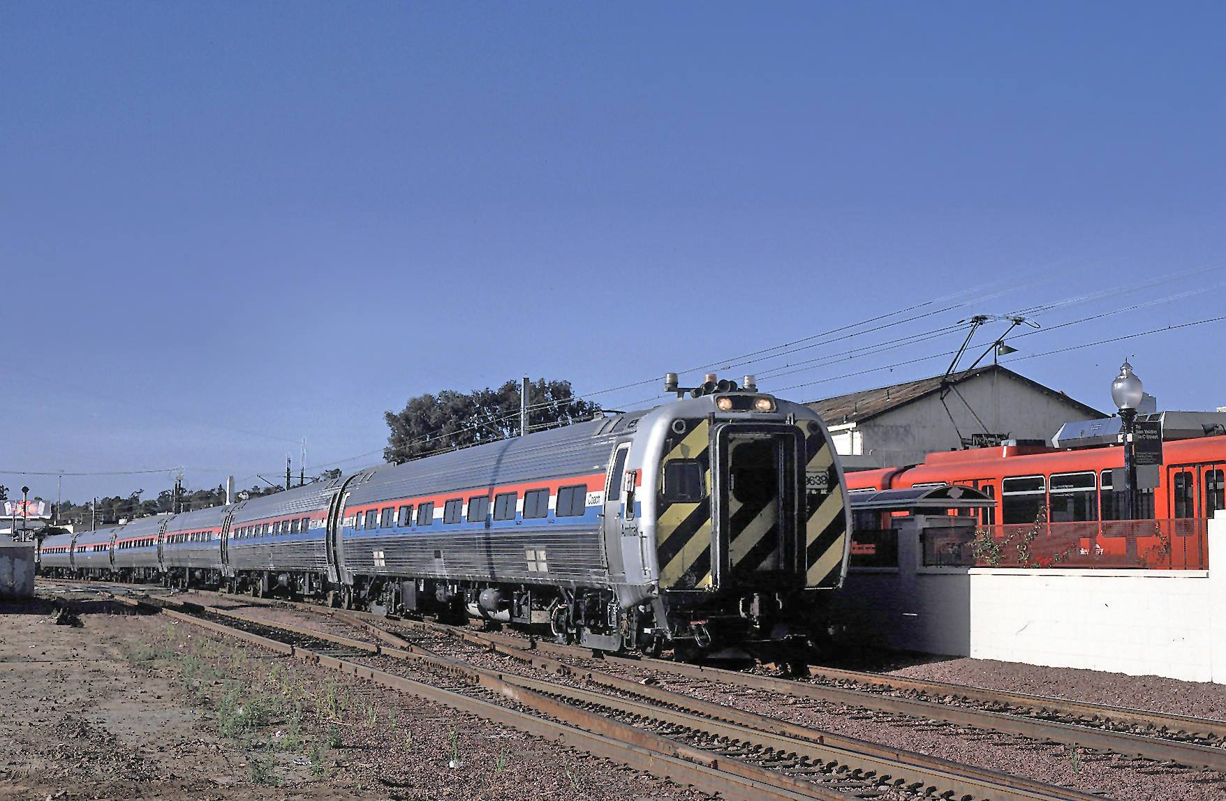 An ex-Metroliner cab car leads the San Diegan into its namesake city in April 1993